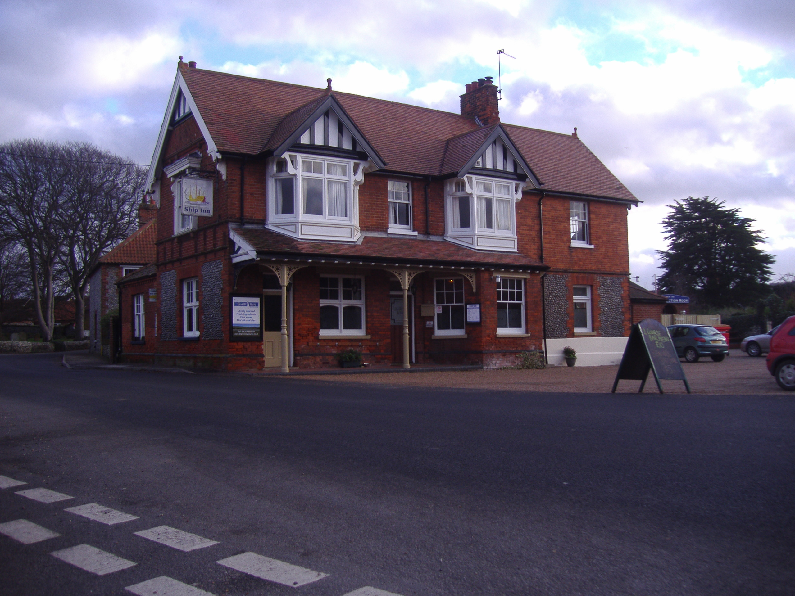 The Ship Inn Public House, Weybourn, Norfolk